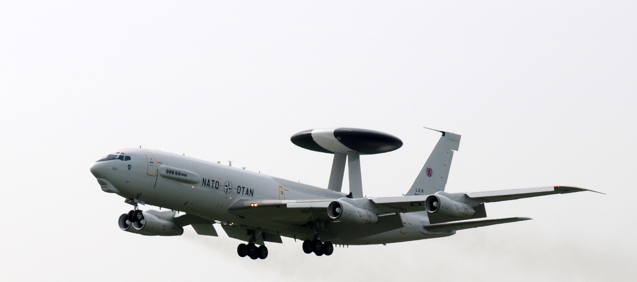 A NATO Boeing E-3 "Sentry" (LX-N90454), carrying the roundel of Luxembourg, in a touch and go at Luxembourg airport